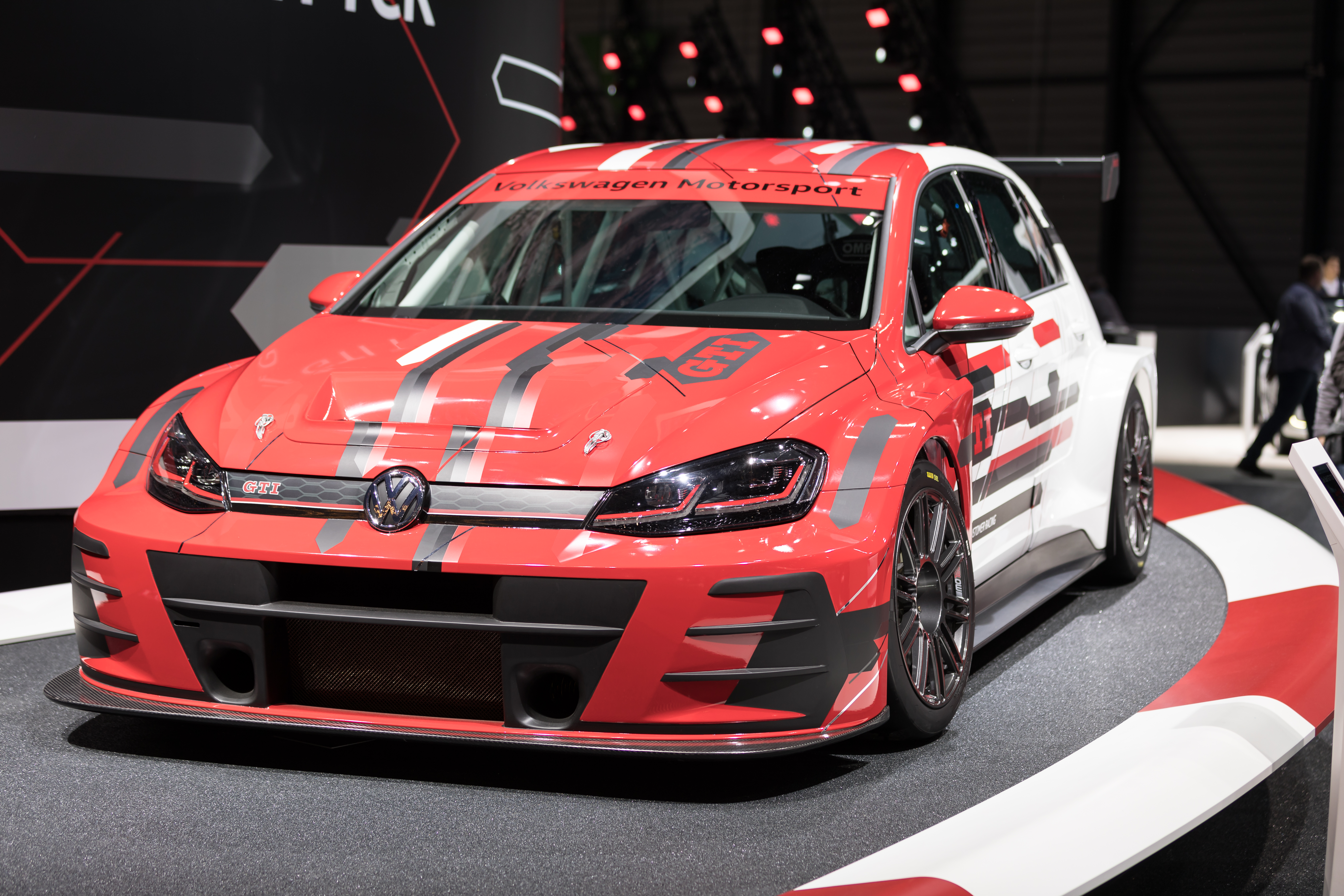 Geneva International Motor Show 2018, VW Golf GTI TCR